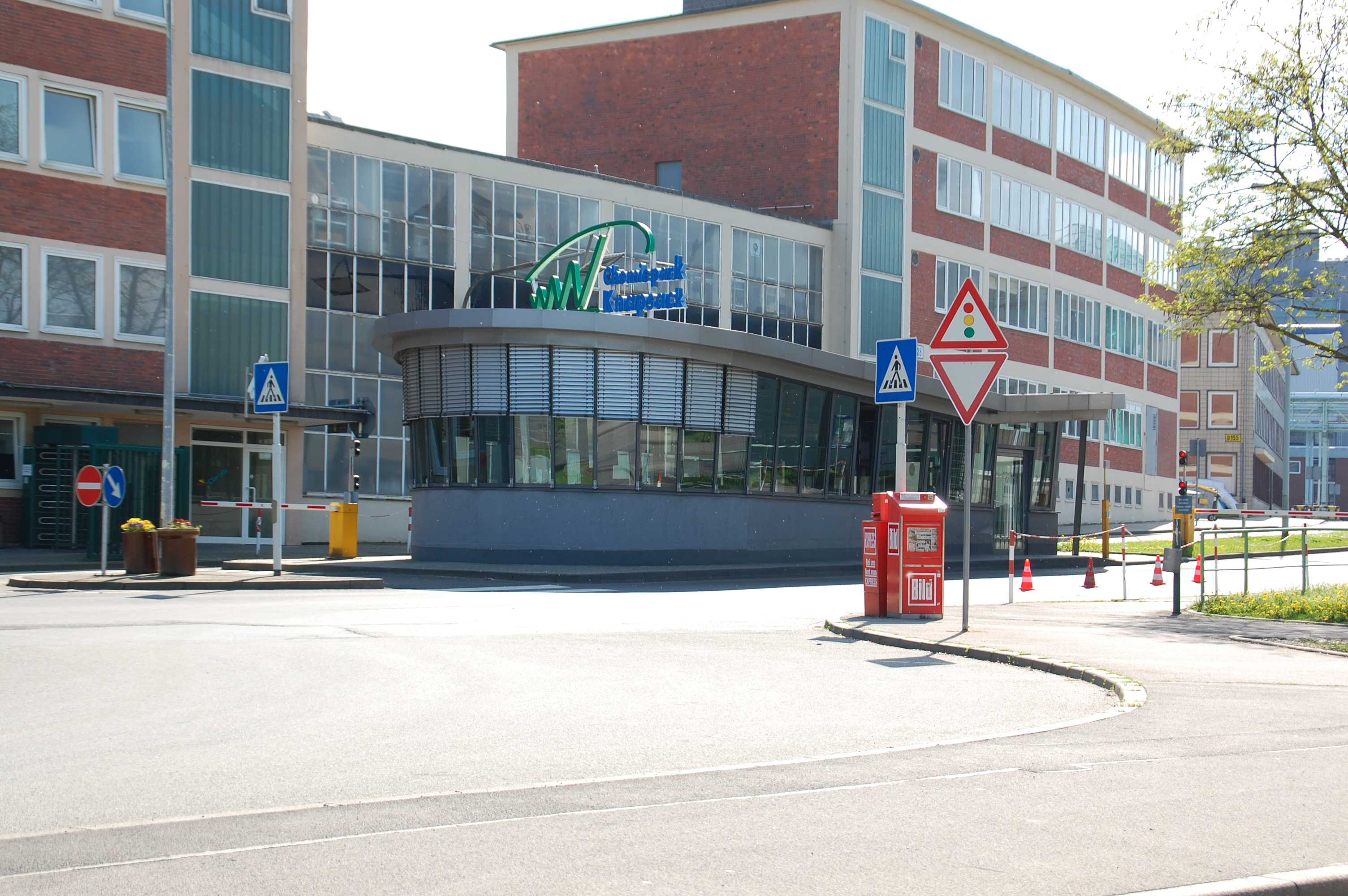 Entrance in Chemiepark Knapsack, Huerth, Germany